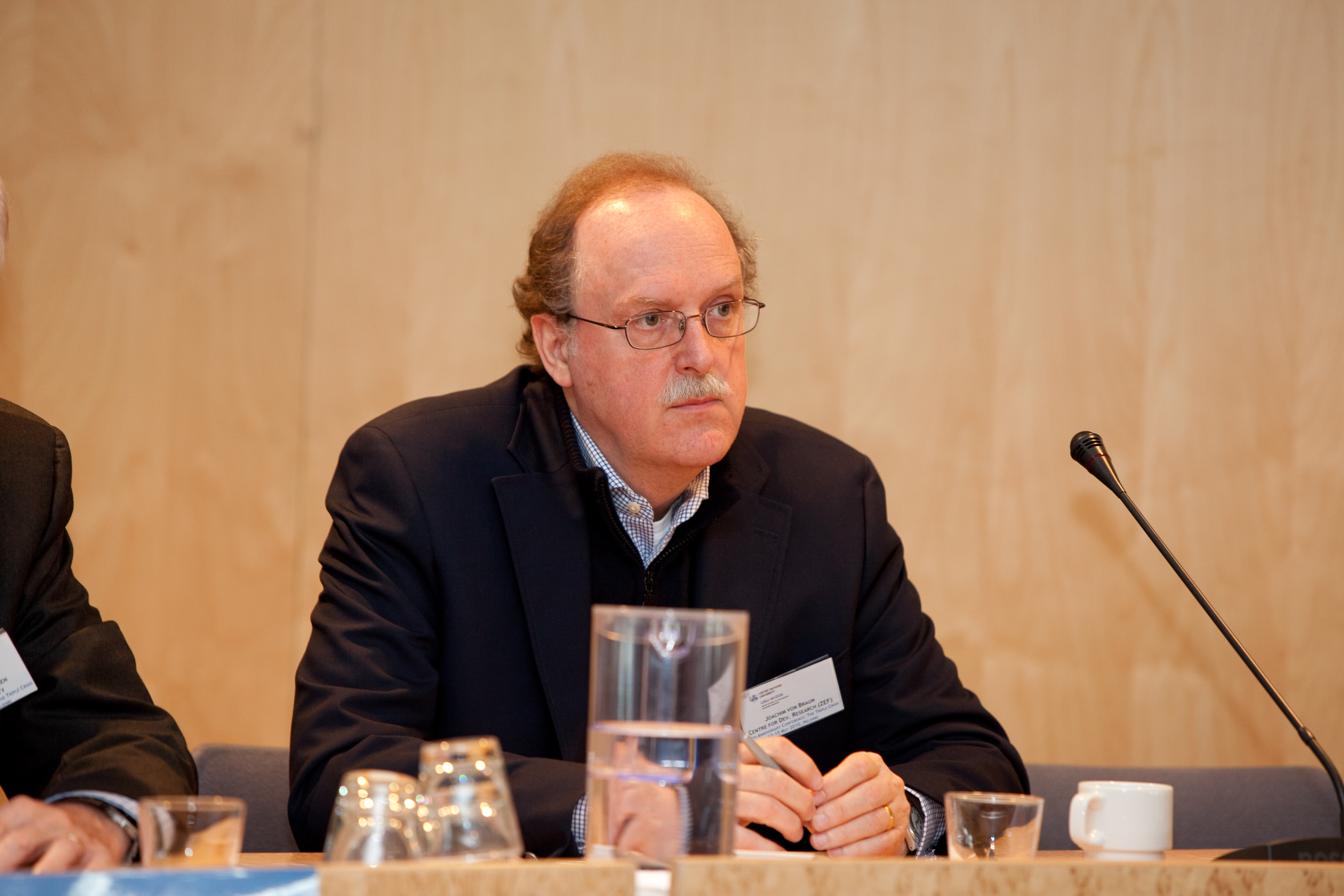 Joachim von Braun, Director, Center for Development Research.